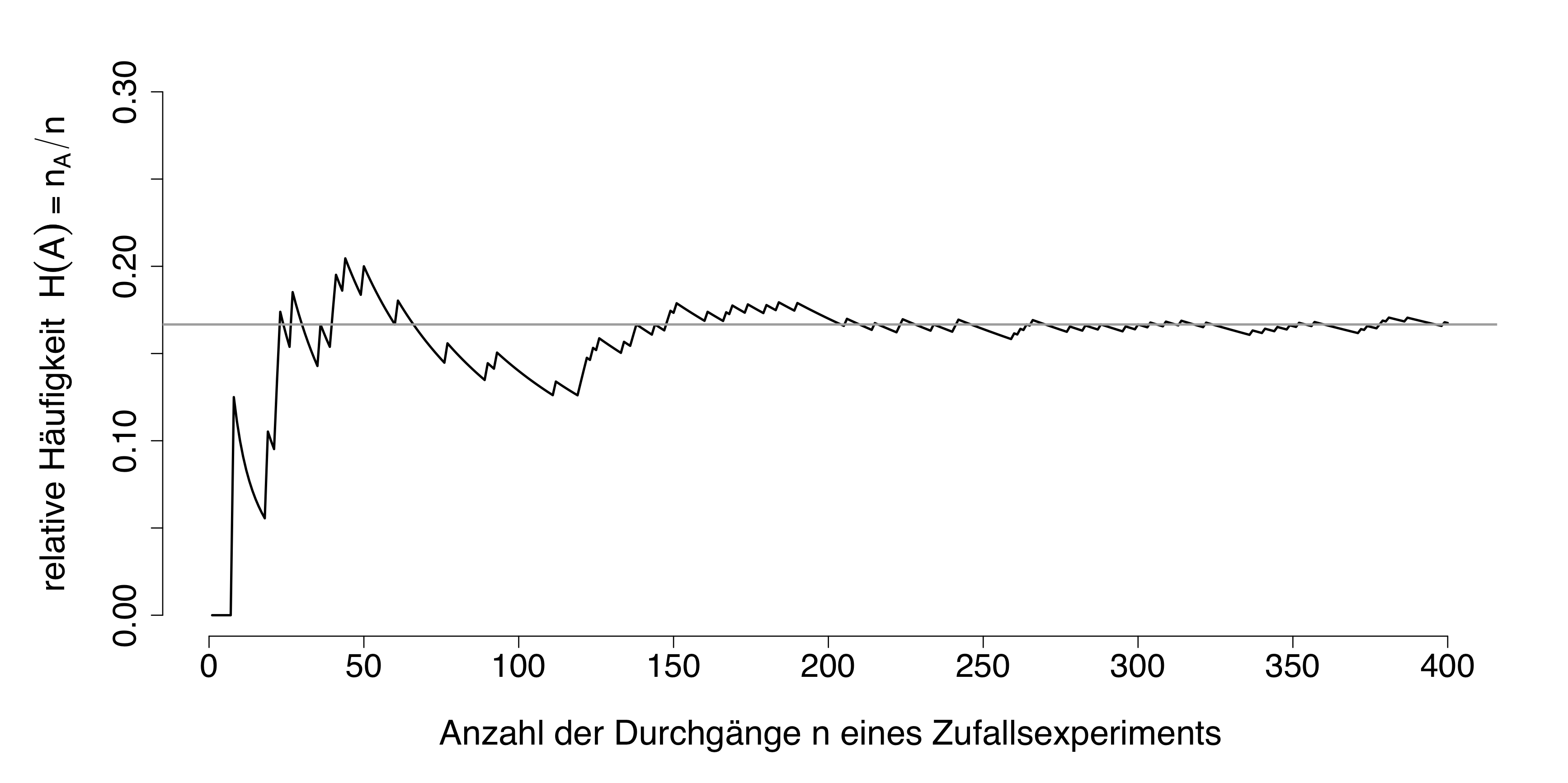 Visualization of the law of large numbers